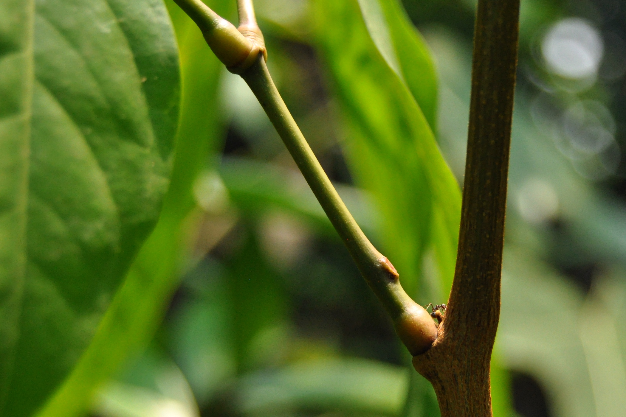 Leaf stalk of Archidendron pauciflorum, with a gland near its leaf base. Bogor, West Java, Indonesia.